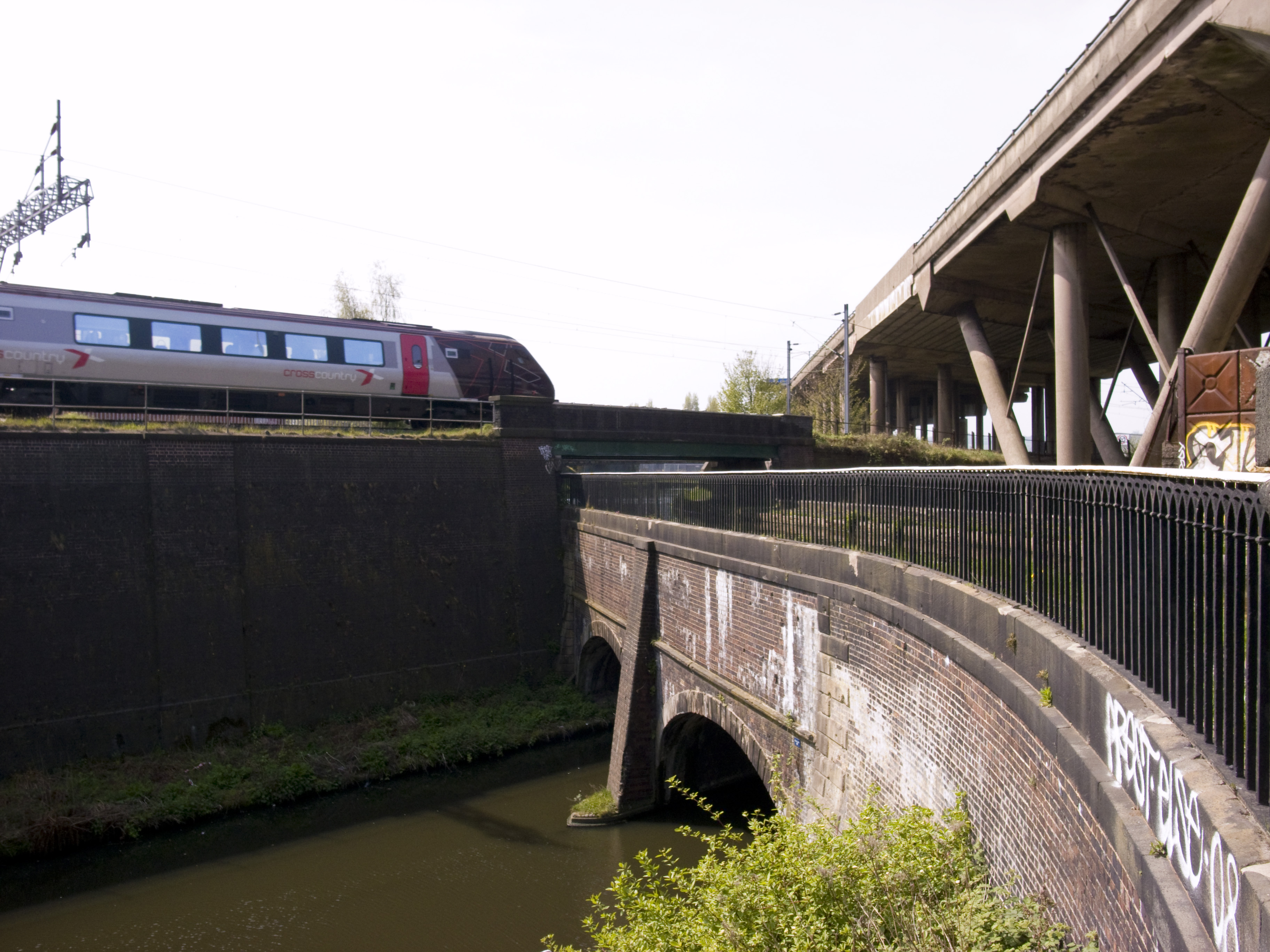 The Stewart Aqueduct, carrying the BCN Old Main Line Canal over the BCN New Main Line Canal in Smethwick, West Midlands (formerly in Staffordshire), England. Alongside and above the New Main Line Canal is the Stour Valley railway section of the West Coast Main Line, all three being bridged by the M5 motorway.